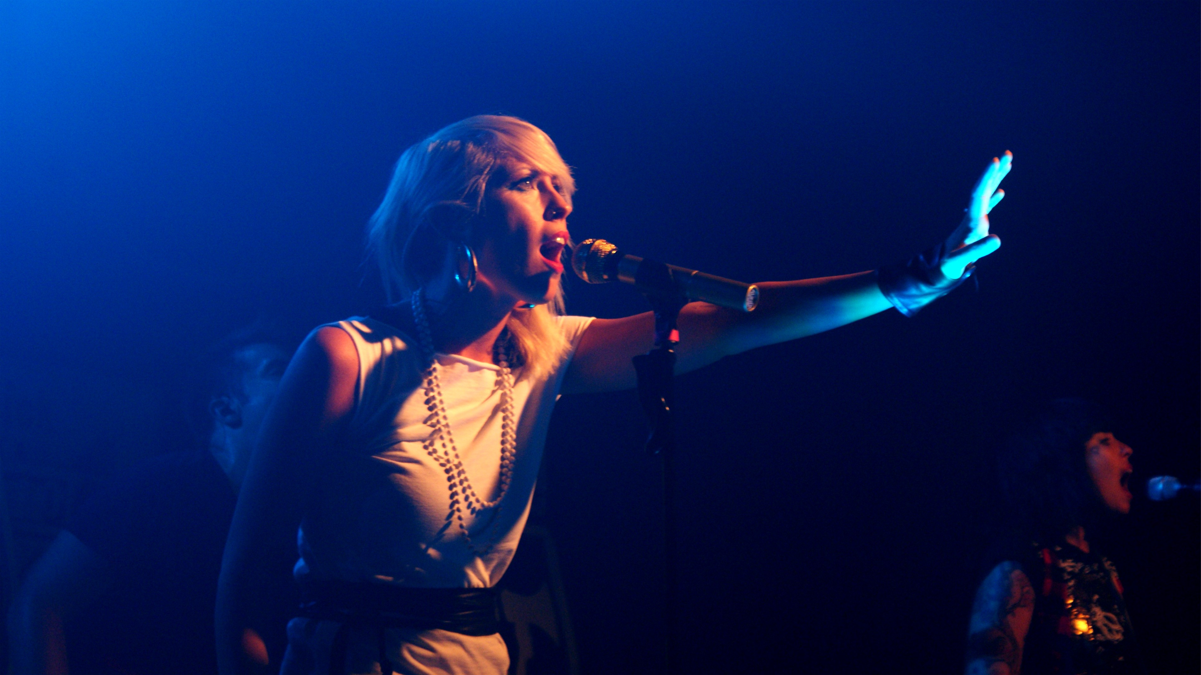 Superchick live Dallas